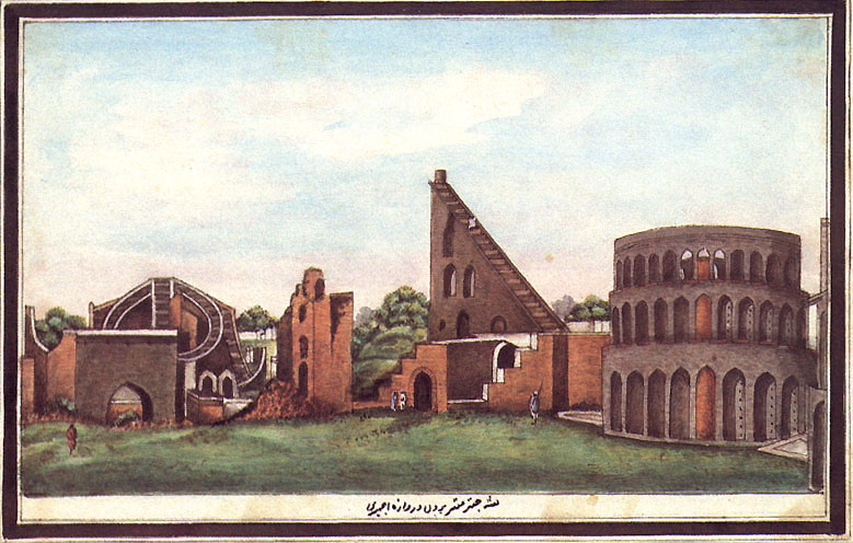 The Jantar Mantar in Delhi, a painting done in the 1840's; Source: The Golden Calm: An English Lady's Life in Moghul Delhi (Reminiscences by Emily, Lady Clive Bayley, and by her father, Sir Thomas Metcalfe), ed. M. M. Kaye (New York: Viking Press, 1980), p. 36. CU scan, Dec. 2000.